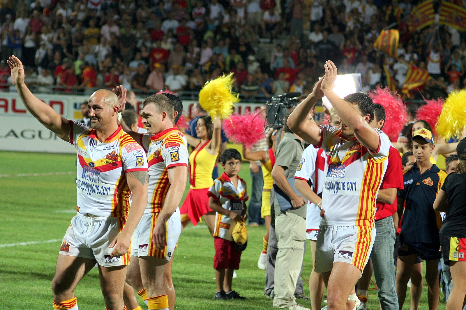 Photo of Catalans Dragons players celebrating after their victory 21-0 at home against St Helens in the Super League.